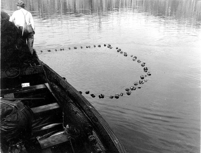 From John Cobb field notebook: Hauling the purse seine, Karta Bay, July 2, 1910 Subjects (LCTGM): Fishermen--Alaska--Karta Bay Subjects (LCSH): Purse seining--Alaska--Karta Bay; Karta Bay (Alaska)